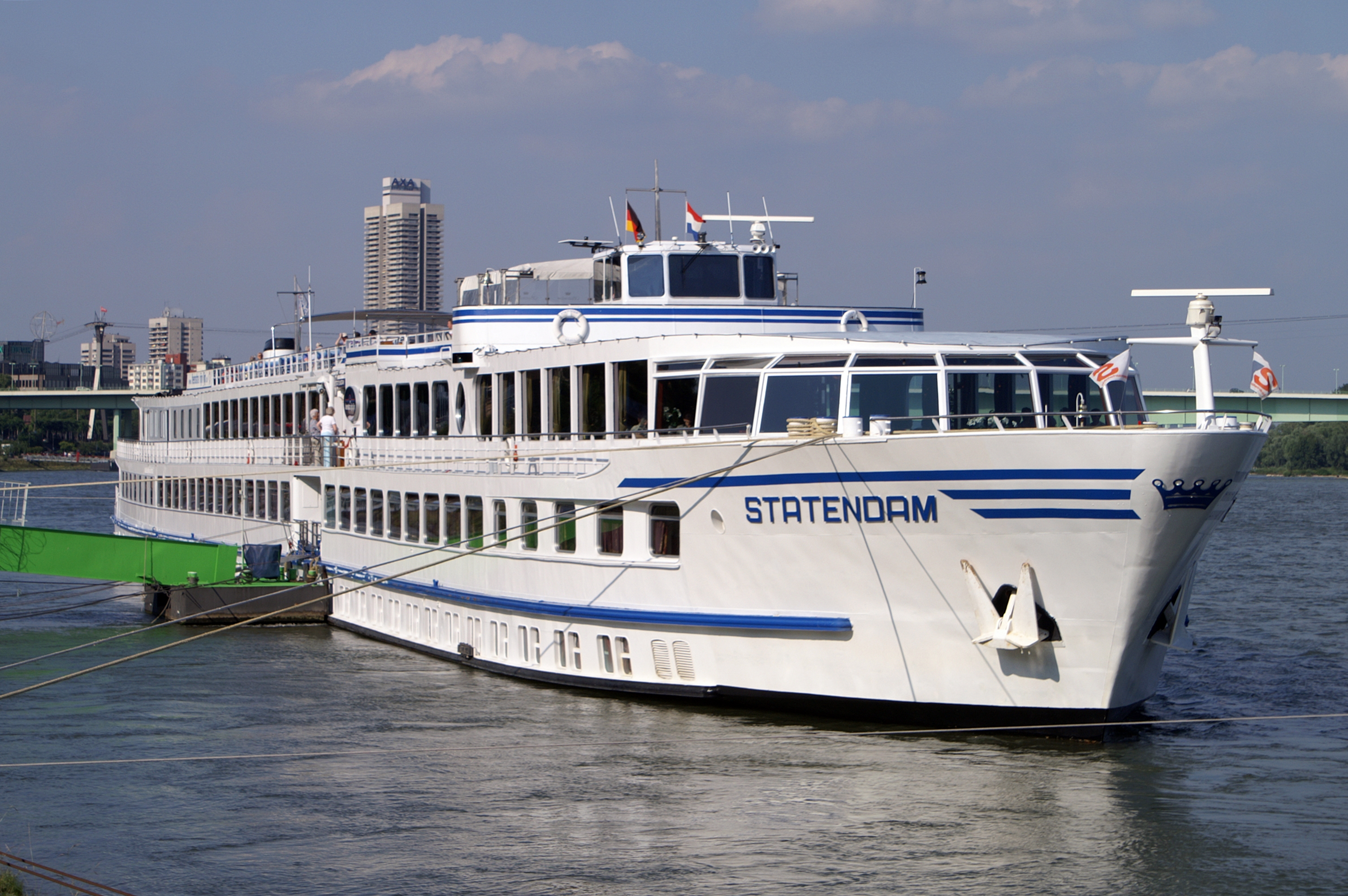 River cruise ship Statendam in Cologne.